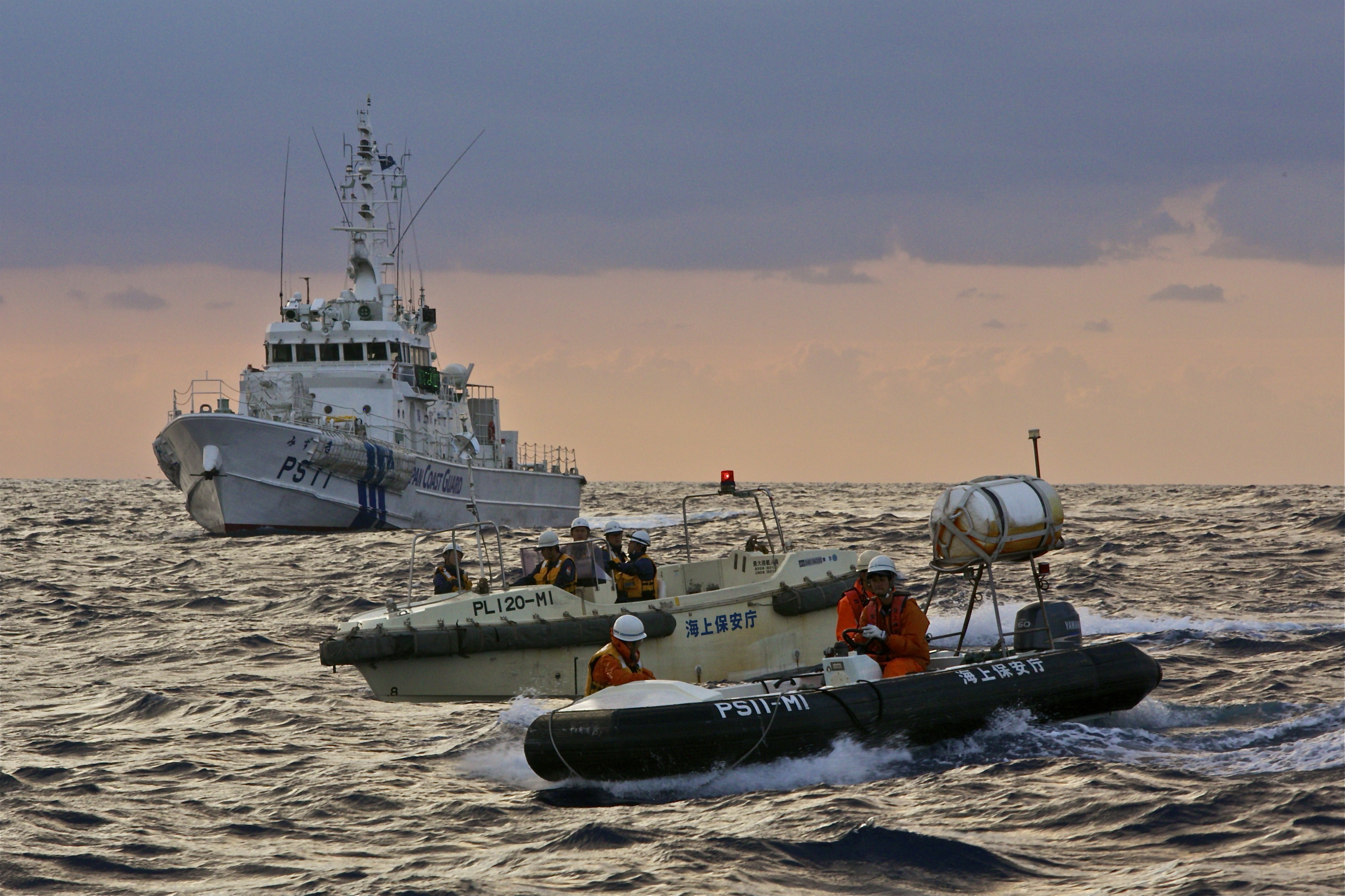 After using water cannon to turn around a flotilla of Taiwanese fishing and Coast Guard vessels on Sept. 26, 2012, the Japanese Coast Guard has shown increasingly vigilance in defending the waters off of the Senkaku/Diaoyu islands. In its territorial claim, Japan's maritime boundary is about 27 kilometres encircling the island chain.